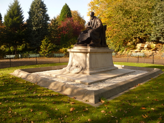 Glasgow: Lord Kelvin statue Situated in Kelvingrove Park, this is a statue of Sir William Thomson, Lord Kelvin of Largs, an eminent scientist who determined the temperature Absolute Zero, and whose name was given to the Kelvin temperature scale thus derived.